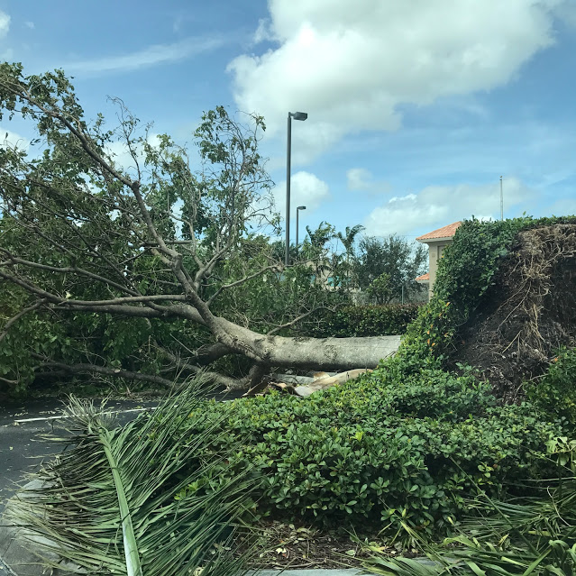 A fallen tree after Hurricane Irma in a Boca Raton, Florida shopping center.